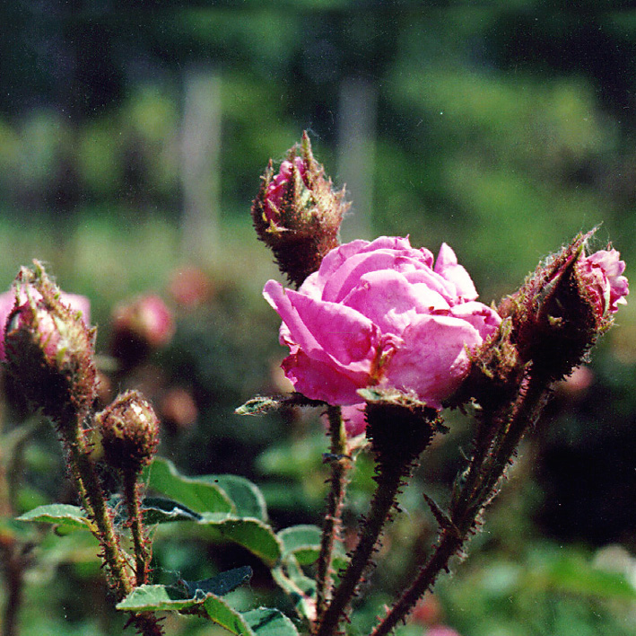 Old Garden Rose Moos group